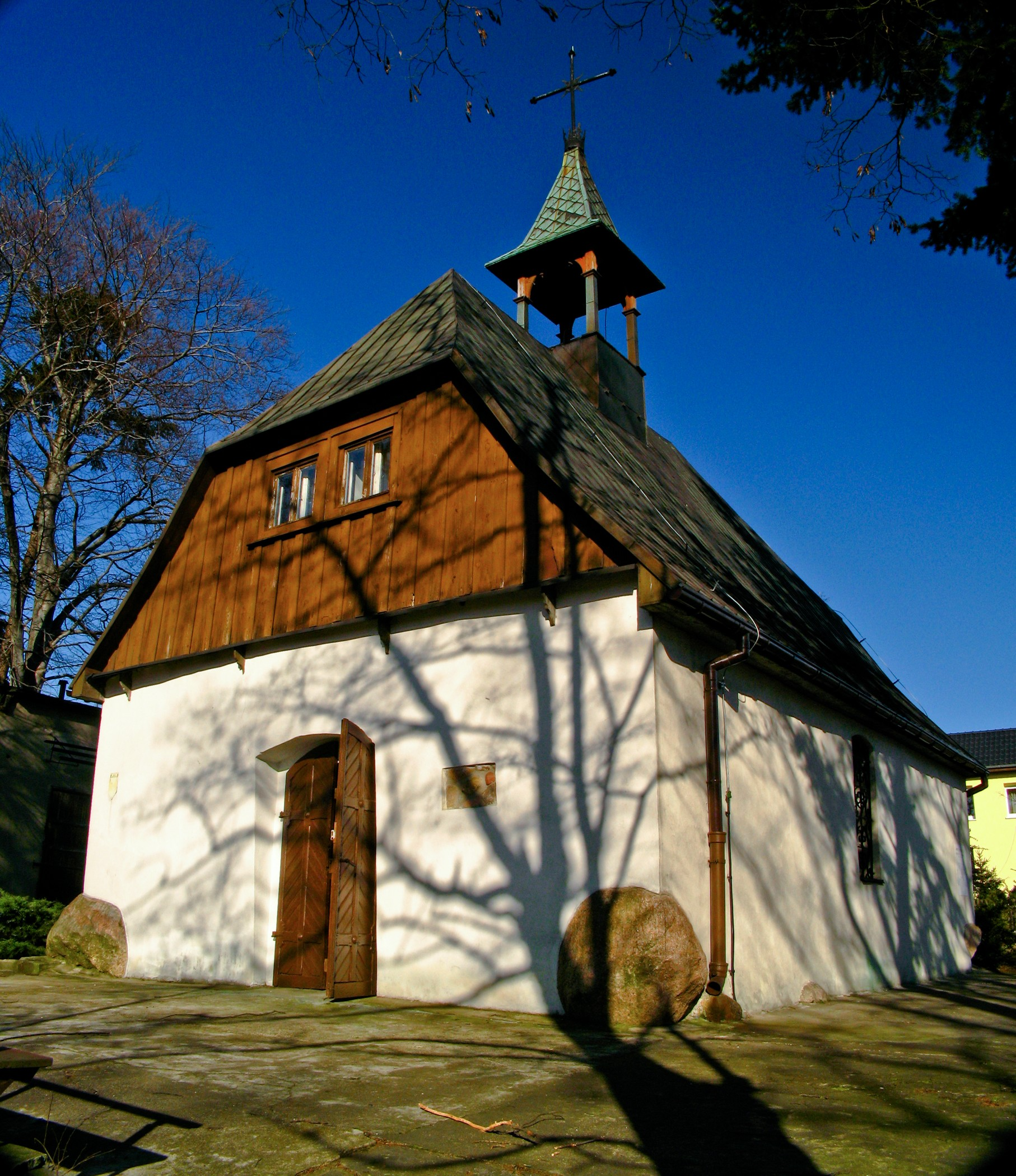 XIV Century chapel